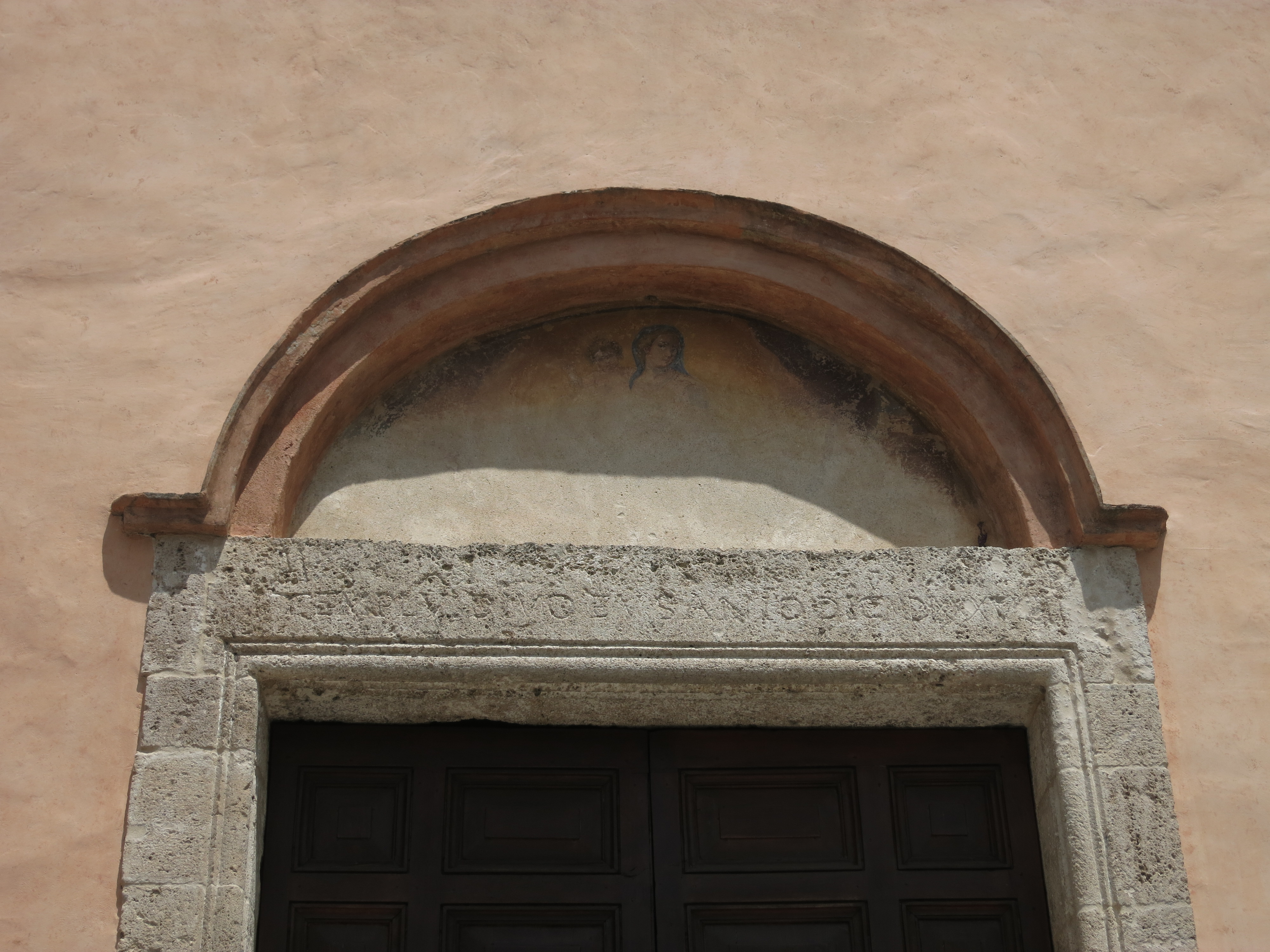 Saint Eusanio church - Rieti, Lazio, Italy